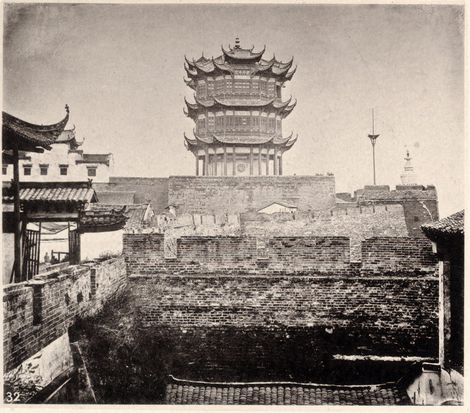 Yellow crane Tower in 1871, photographer for yuehan·tangmuxun, previously included in the imaging volume III of China and the Chinese people.